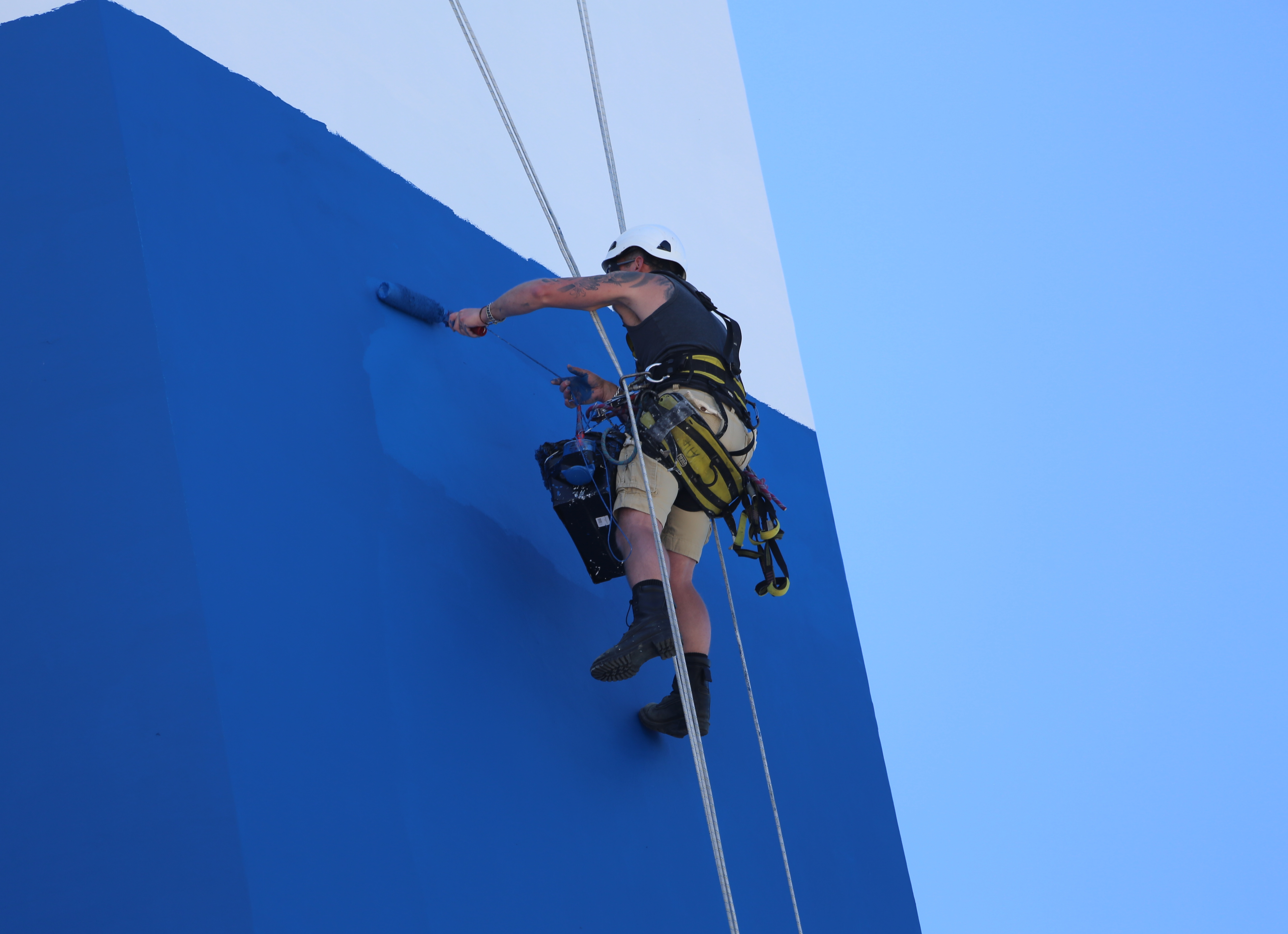 Photo of the Spinnaker tower being painted blue